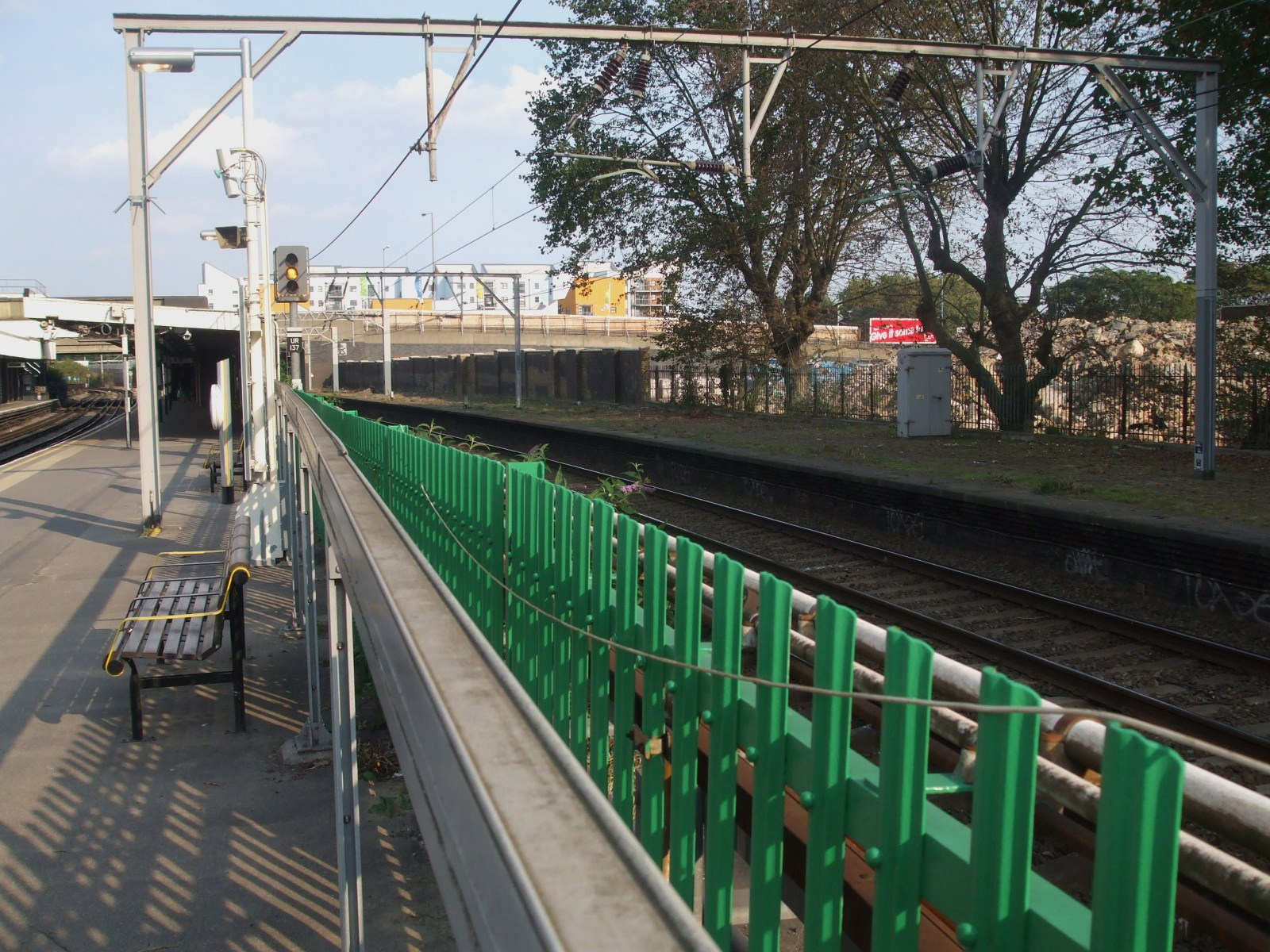 Bromley-by-Bow tube station looking east along the former platforms serving the mainline London, Tilbury & Southend line (operated by c2c). These were closed in the 1960s, with mainline trains passing through non-stop.